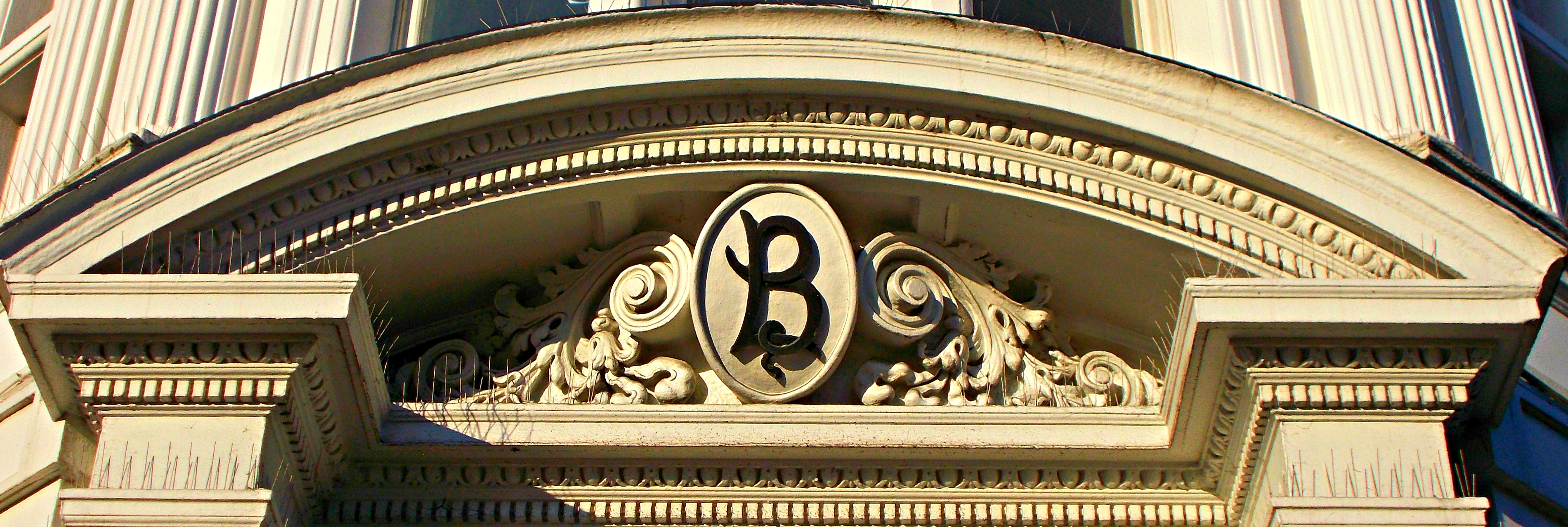 Ornate detail above the entrance to the Victorian Barclays bank building in the centre of Sutton, London